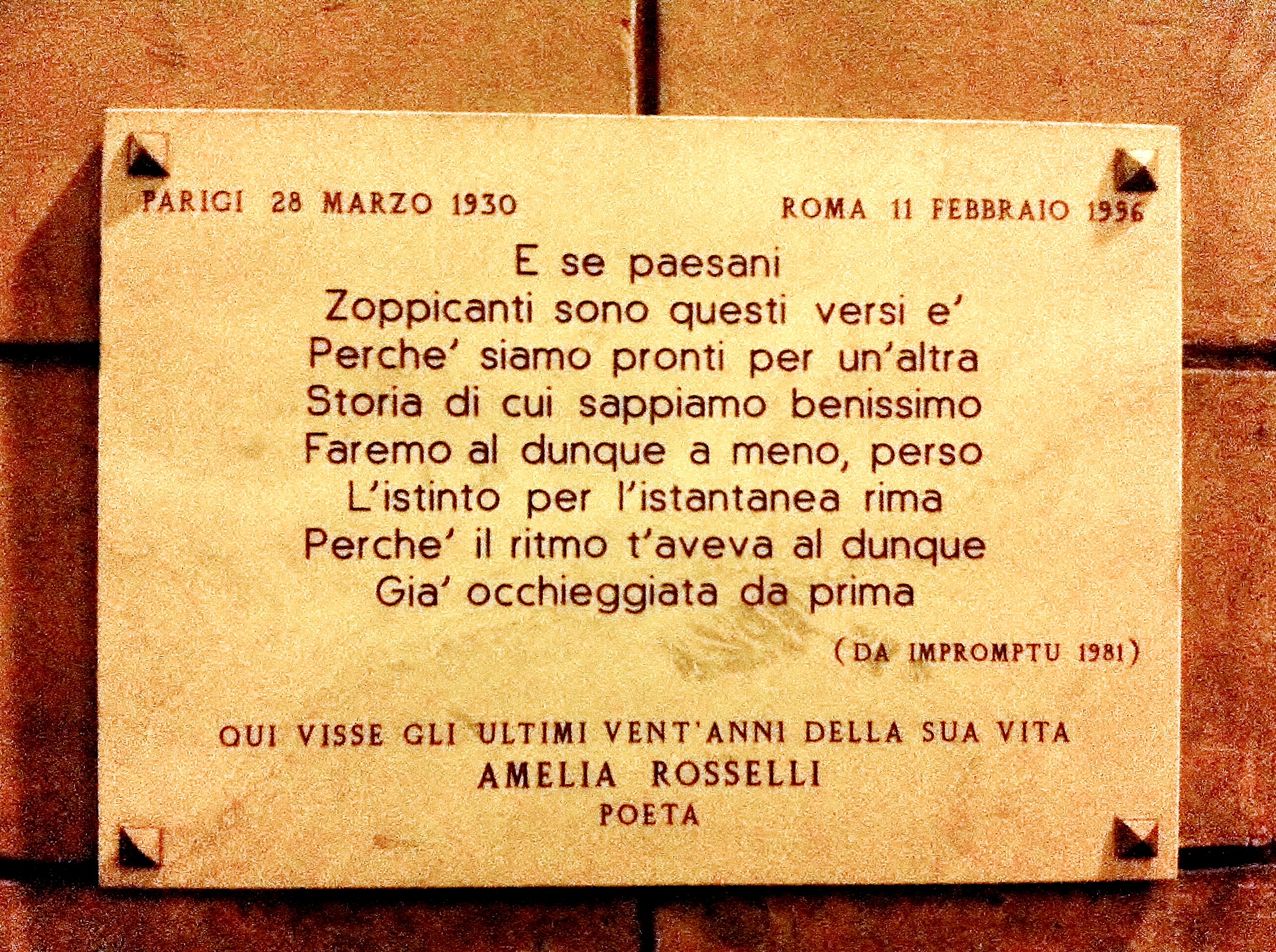 Plate outside the house of the Italian poetess and writer Amelia Rosselli in via del Corallo, Rome; in this house she lived the last 20 years of her life until her death by suicide in 1996